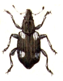 Bagous lutulentus, from Calwer's Käferbuch, Table 34, Picture 3. Taxonomy was updated to 2008, using mostly the sites Fauna Europaea and BioLib. Please contact Sarefo if the determination is wrong!